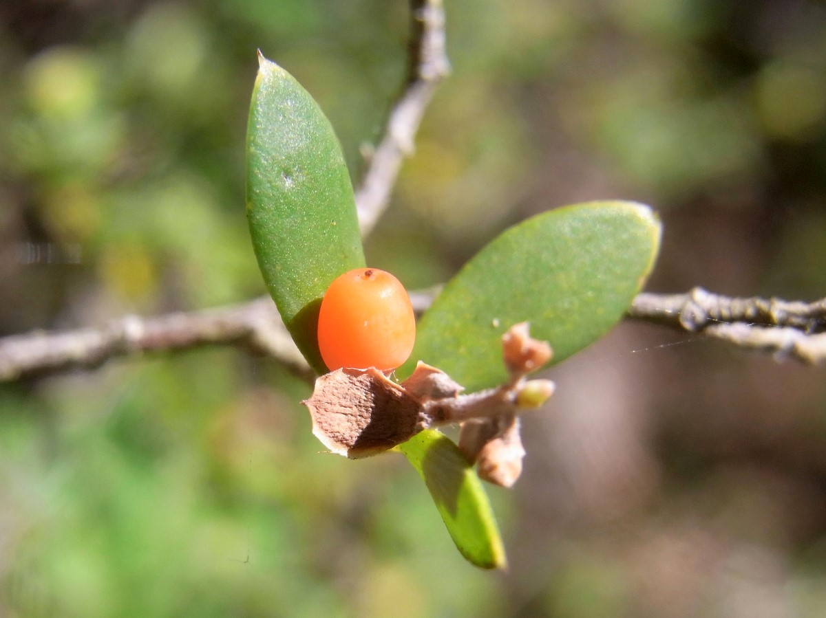 bush at Norah Head, probably Acrotriche divaricata